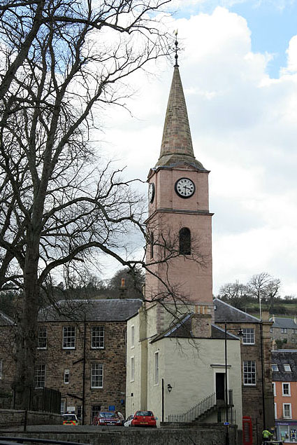 Newgate, Market Place, Jedburgh Built in 1756 with the steeple added in 1761, this replaced the Tolbooth/Town House on this site, and is a prominent landmark in the town. Newgate, annexed to the County Buildings, was superseded by Jedburgh Castle Jail in 1823. Viewed from Abbey Place in the adjoining square.